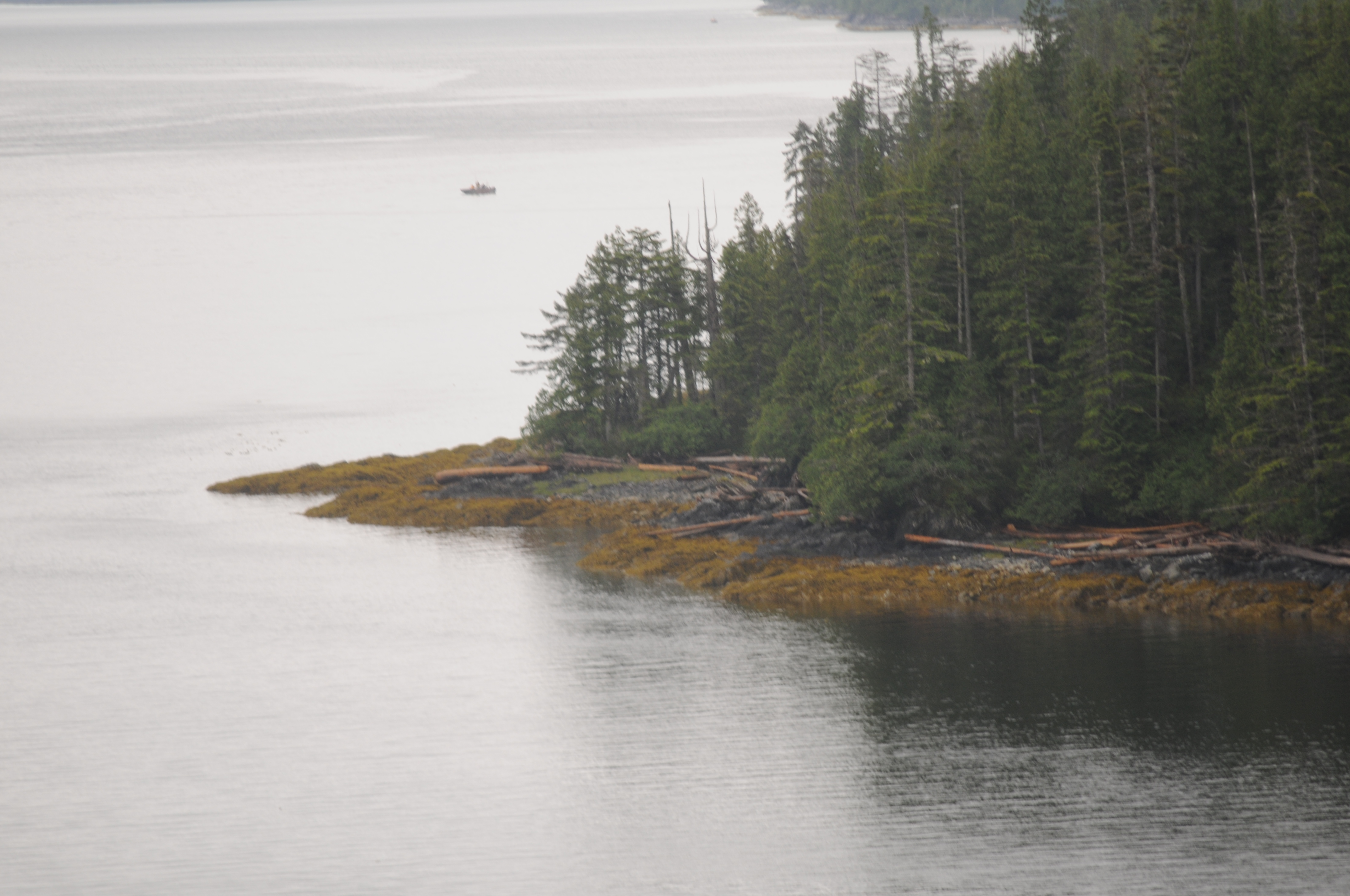 ORILLAS INEXPLORADAS